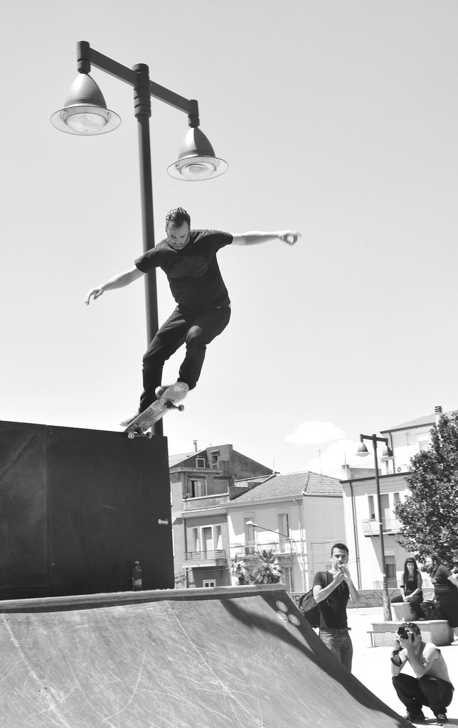 Ed Templeton, a professional skateboarder, at Nuoro in 2010.